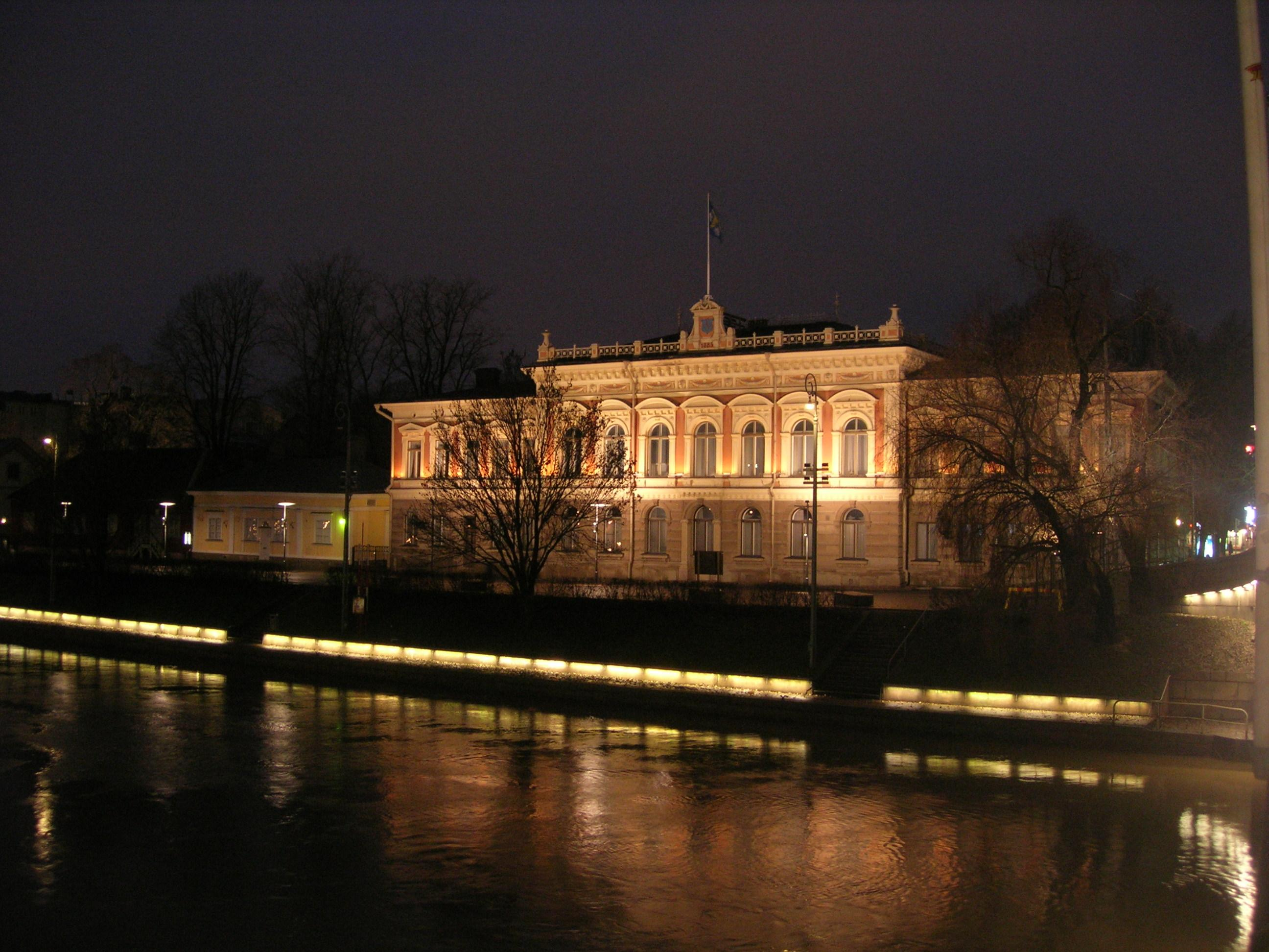 The city hall of Turku in the nightside